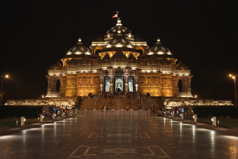 Wounder full view of night lighting of temple